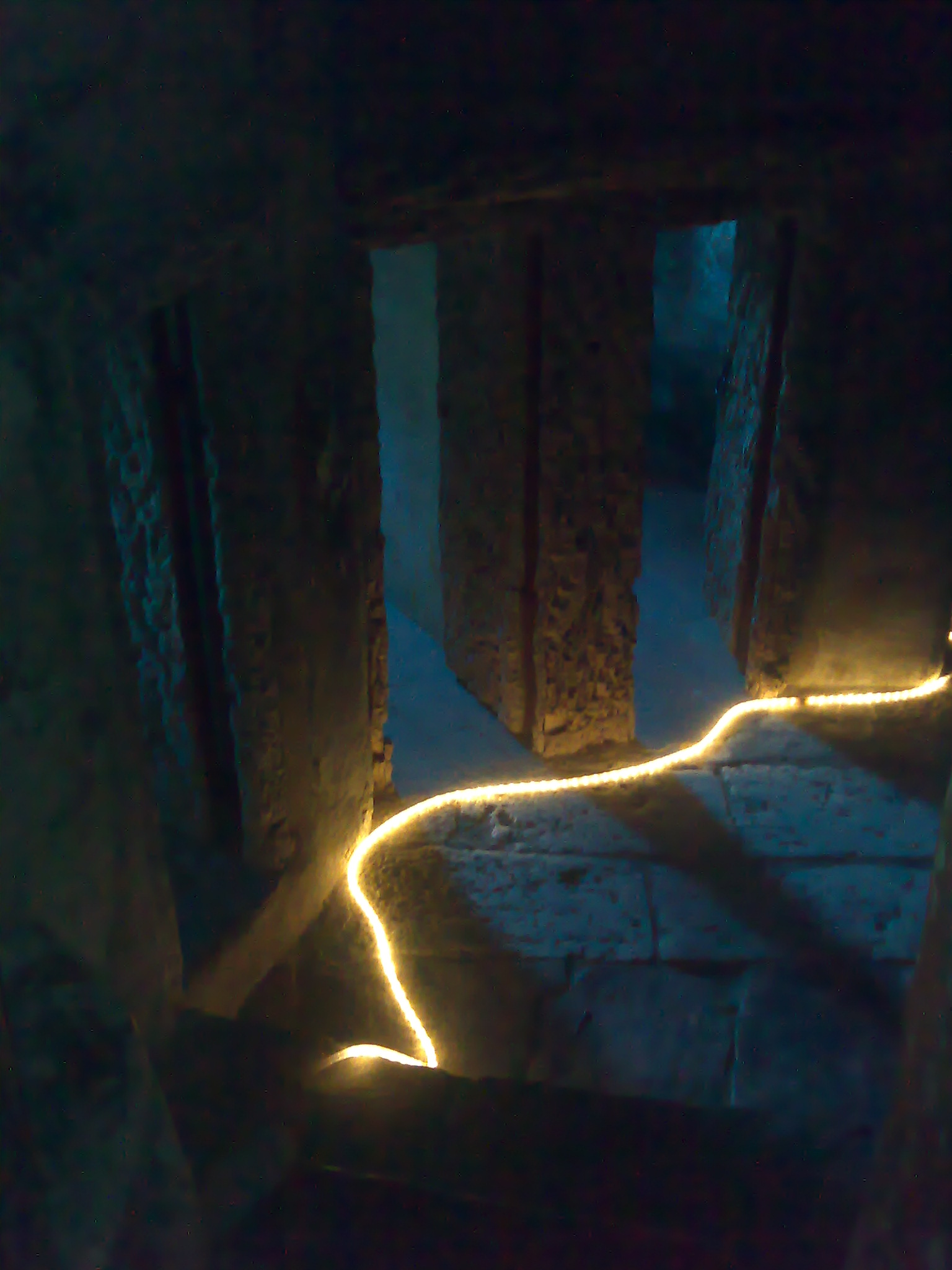 Convento dos capuchos (Sintra) - interior view